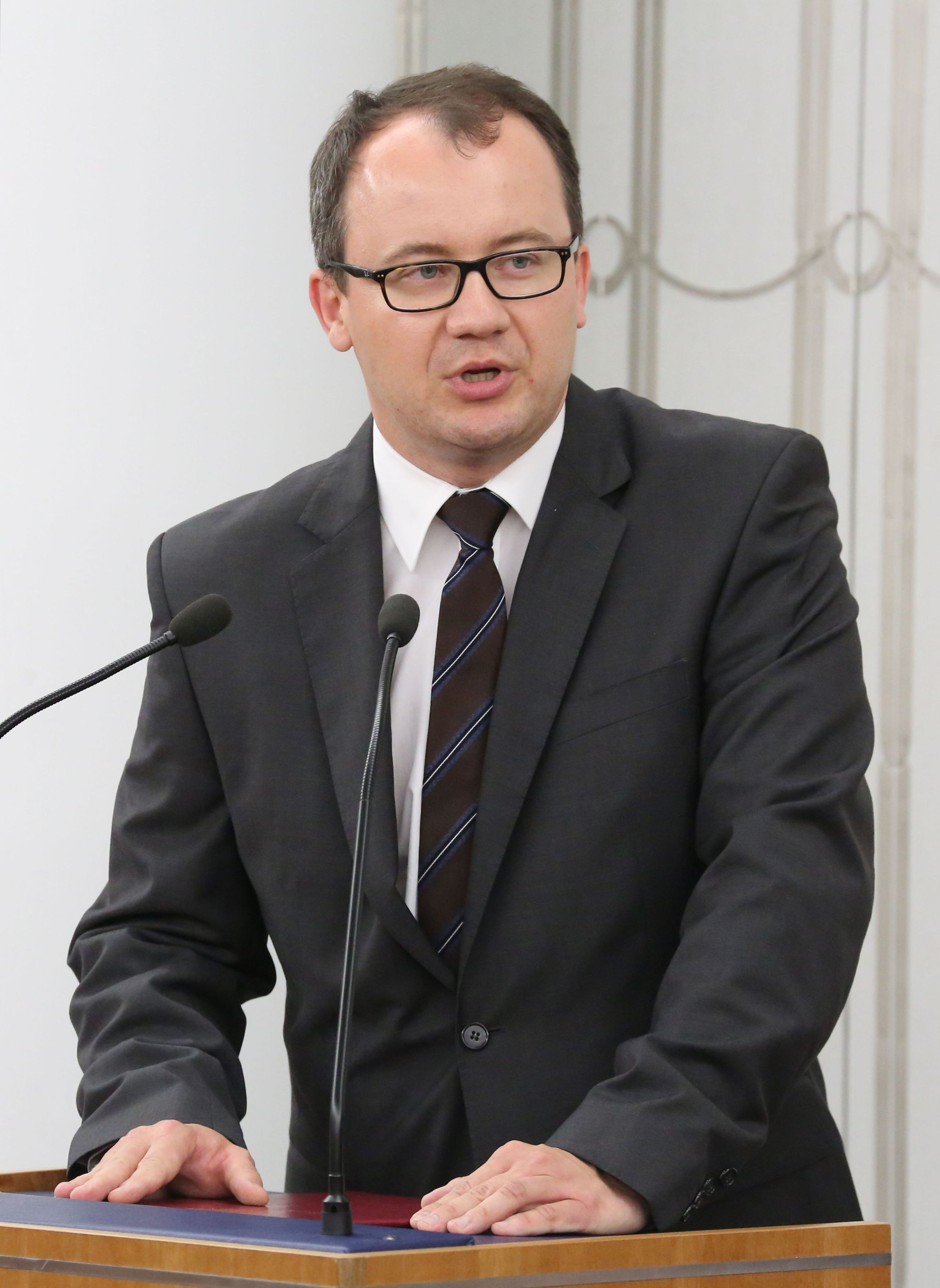 Adam Bodnar during 80th sitting of the Polish Senate